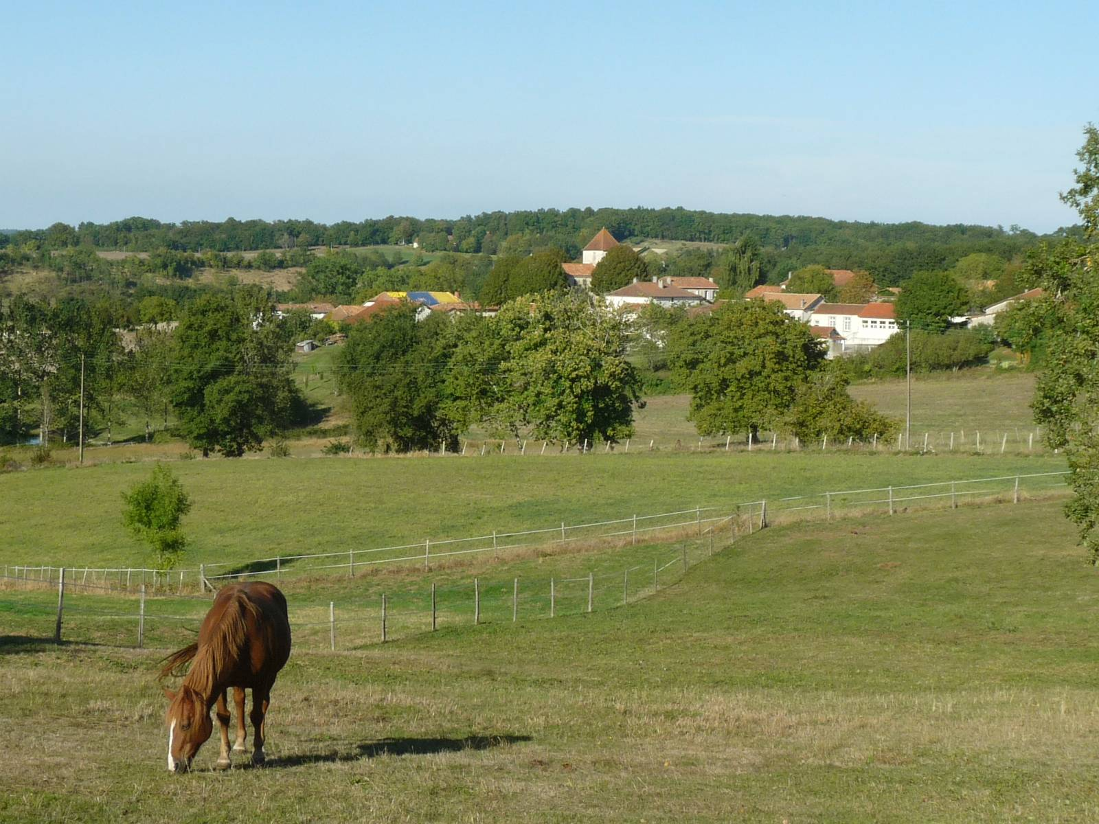 village view of Juignac, Charente, SW France